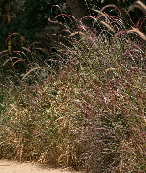 Purple Fountain Grass Pennisetum setaceum in Hyderabad , India.